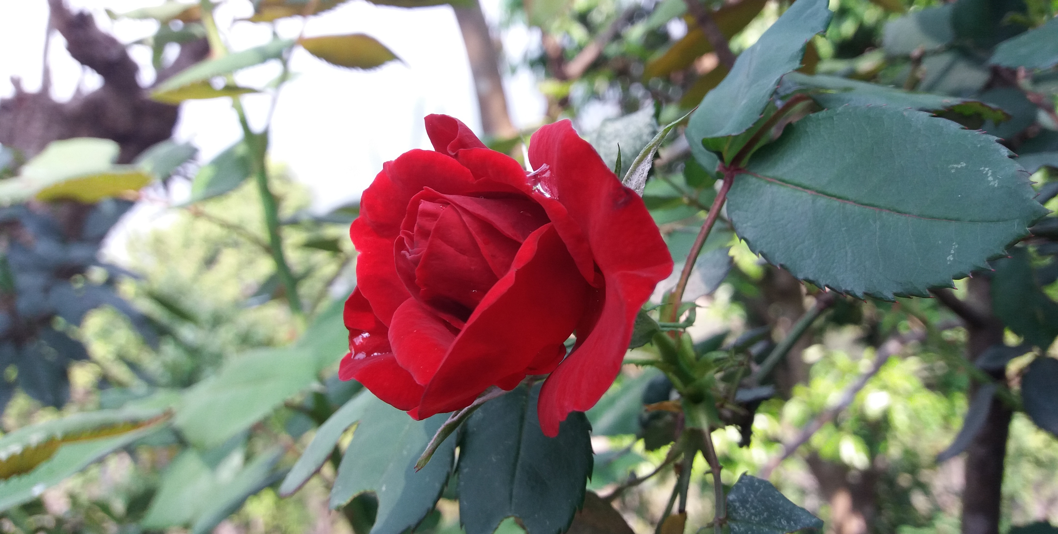 picture of Red Rose